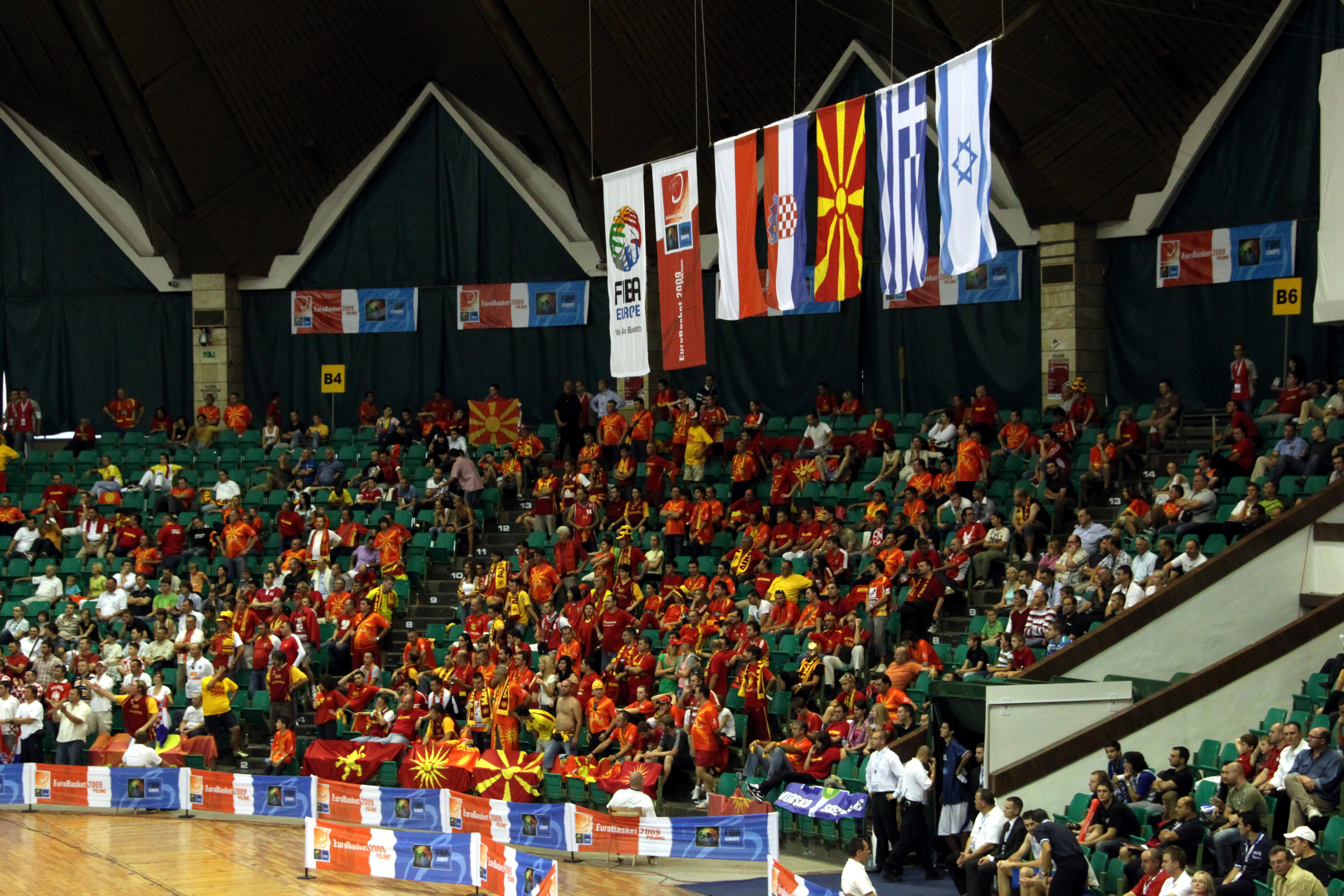 The fans of the National Basketball team of Macedonia [Macedonia 71-81 Croatia, Eurobasket 2009, Poland]